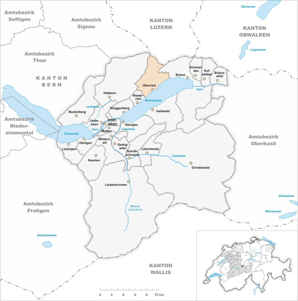 Municipality Oberried am Brienzersee